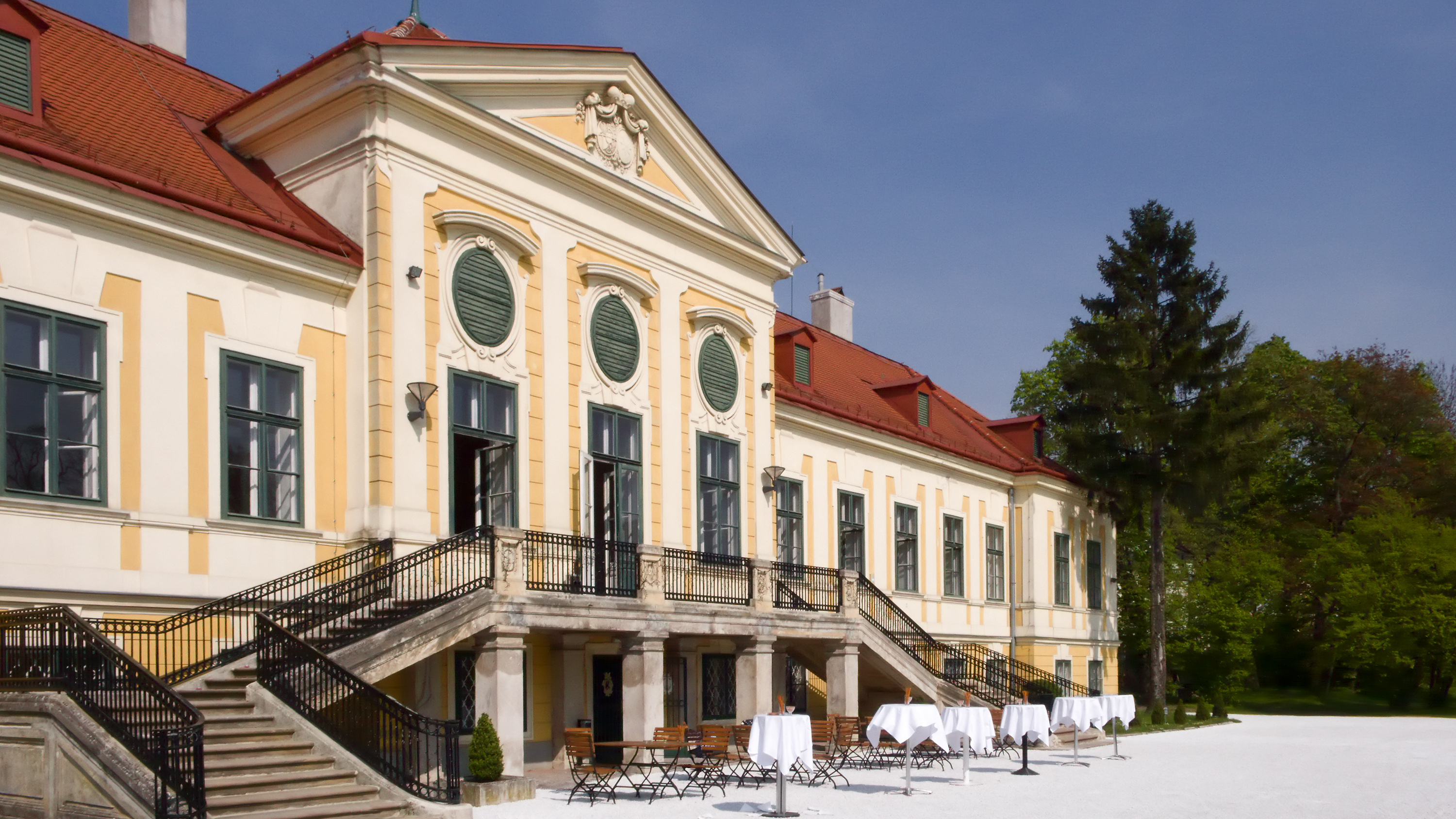 Palace Miller-von-Aichholz-Schlössel in Vienna Penzing